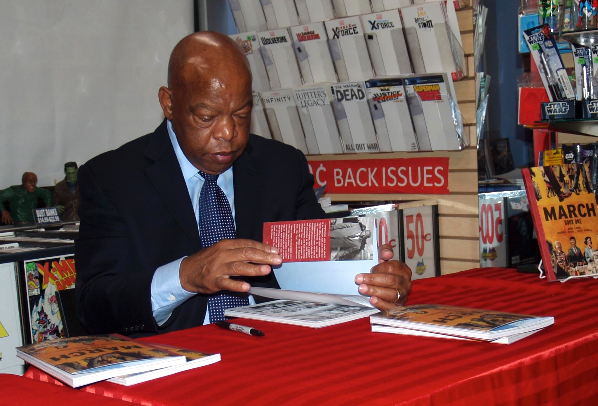 Civil rights leader and politician John Lewis at a November 7, 2013 book signing for March Book One, the first volume of his three-volume graphic novel autobiography, at Midtown Comics Downtown in Manhattan. This photo was created by Luigi Novi. It is not in the public domain, and use of this file outside of the licensing terms is a copyright violation.